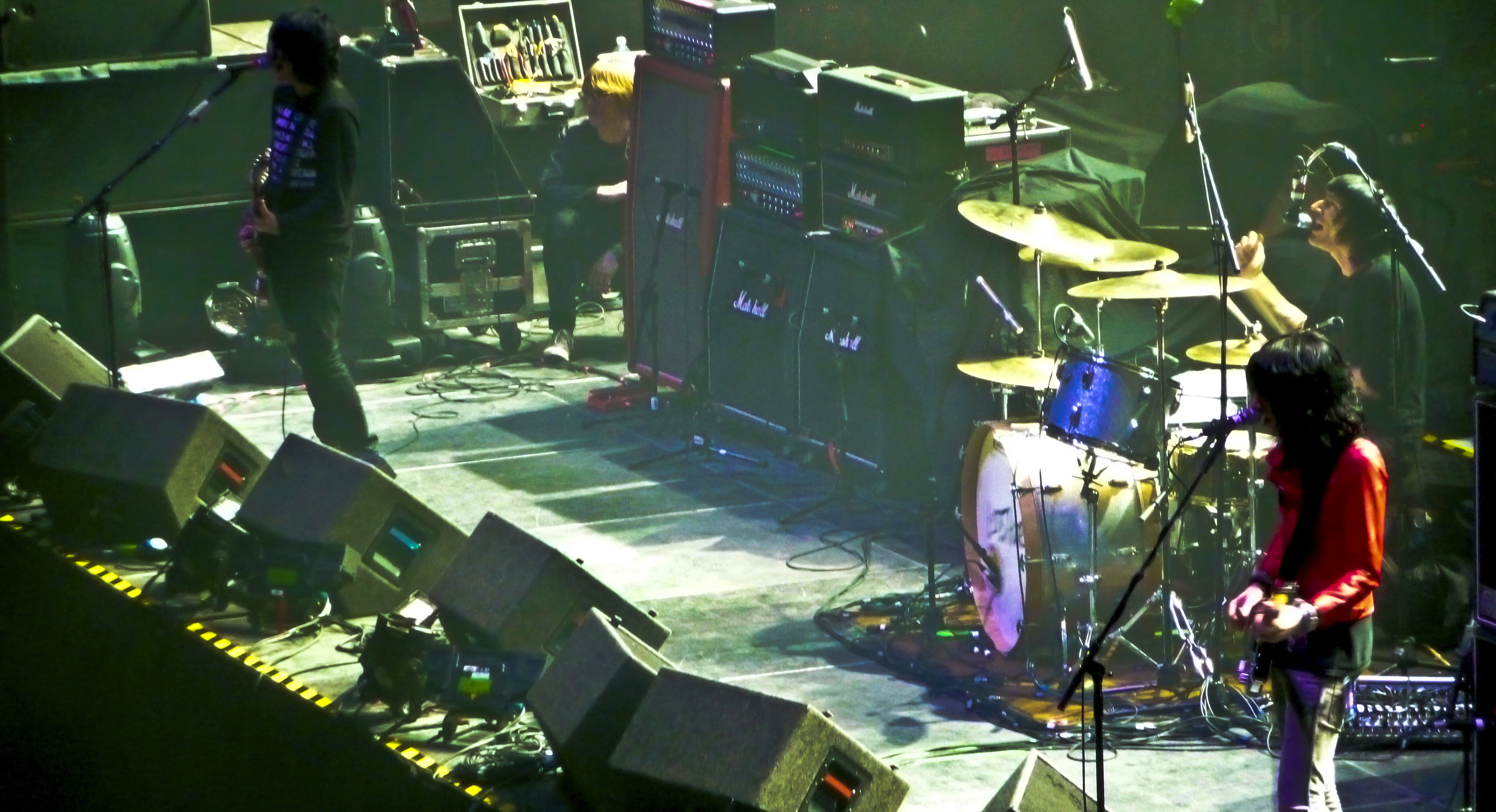 LostAlone At Nottingham Arena